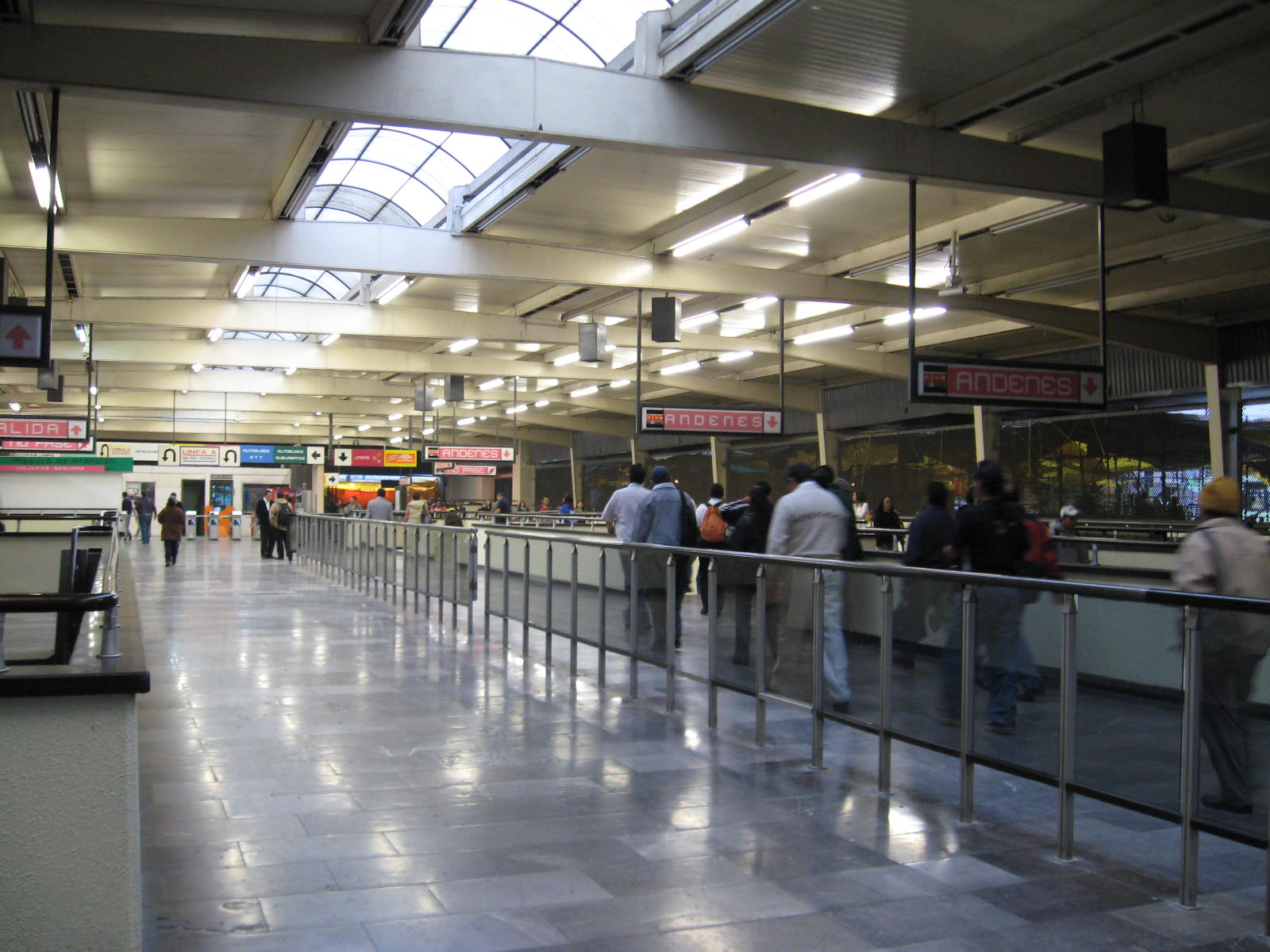 Inside the Line 1 portion of Metro station Pantitlan above the tracks in Mexico City